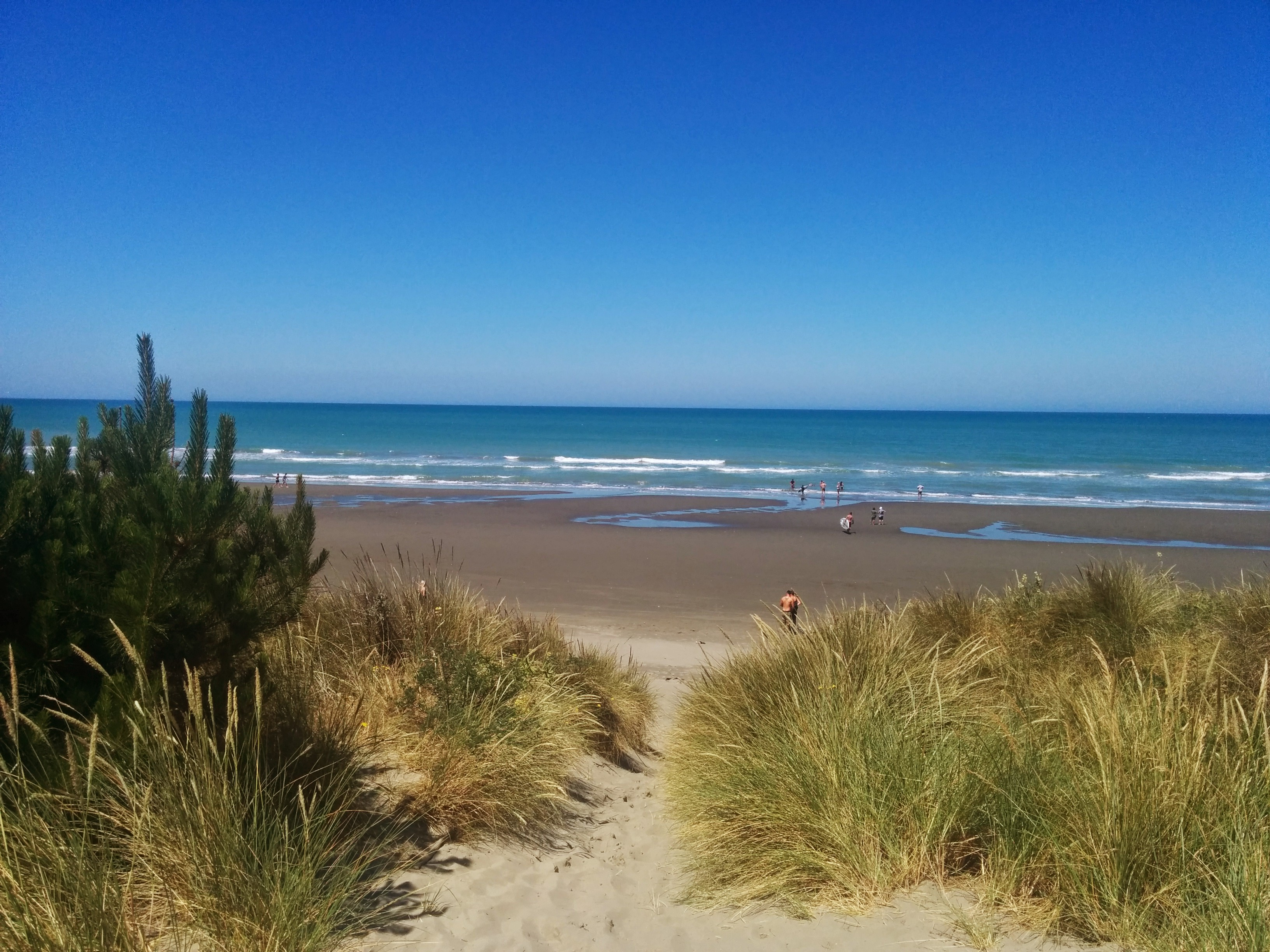 Waikuku Beach, Summer 2015